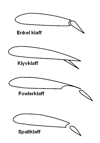 Different types of flaps for aircrafts.